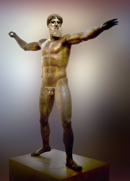 Poseidon (or Zeus) of Cape Artemision, National Archaeological Museum of Athens, Athens, Greece.